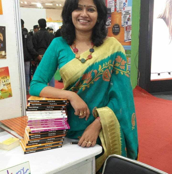 Prachi Garg is an Indian author, columnist, academe speaker and entrepreneur.